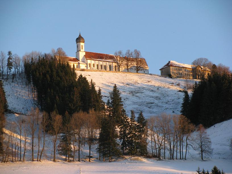 Summit of the Hohen Peissenberg mountain.